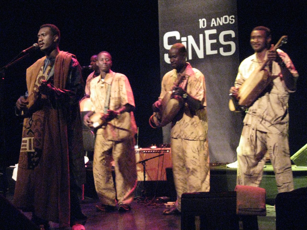 FMM Sines 2008 - Bassekou Kouyate e Ngoni Ba from Mali